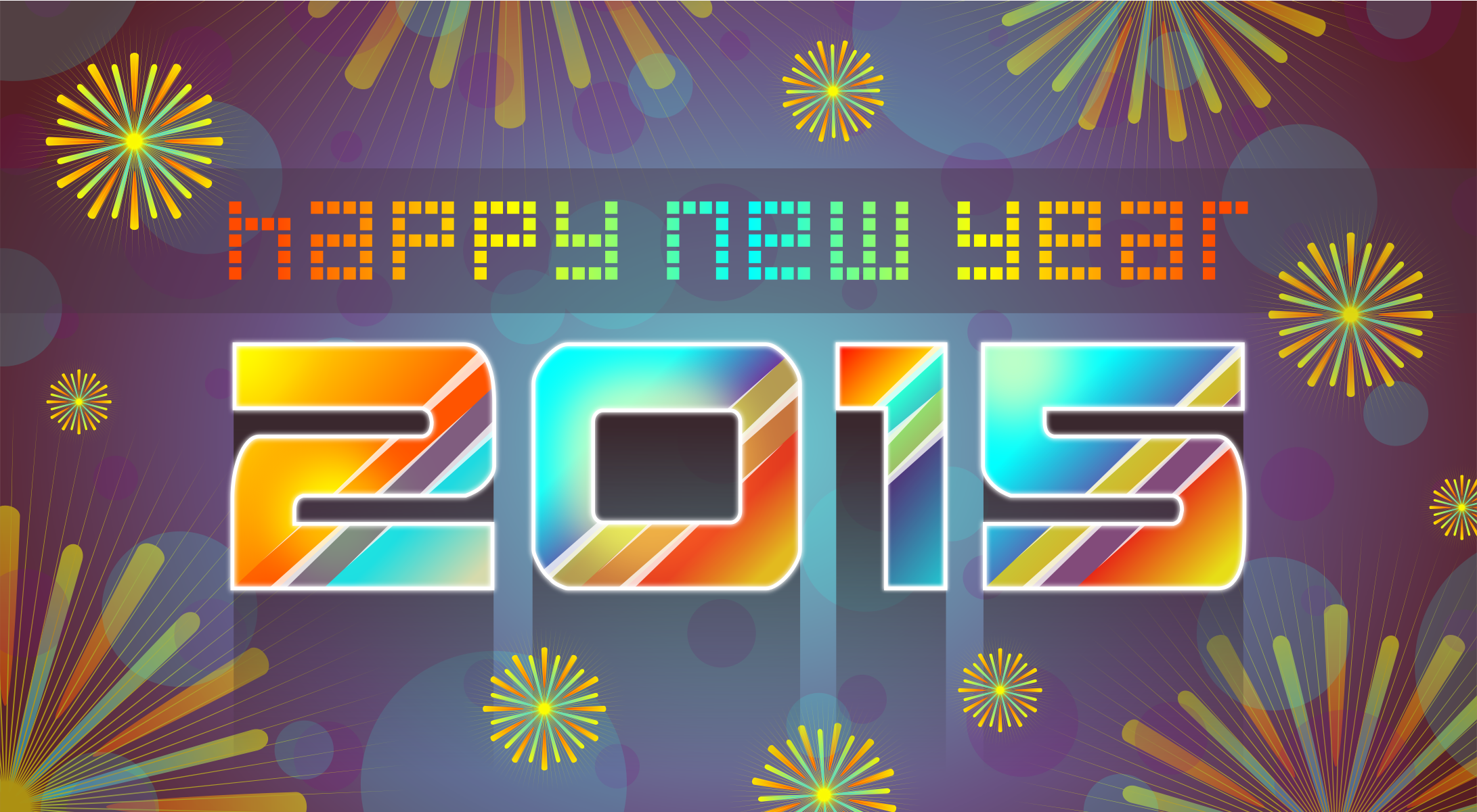 New Year 2015